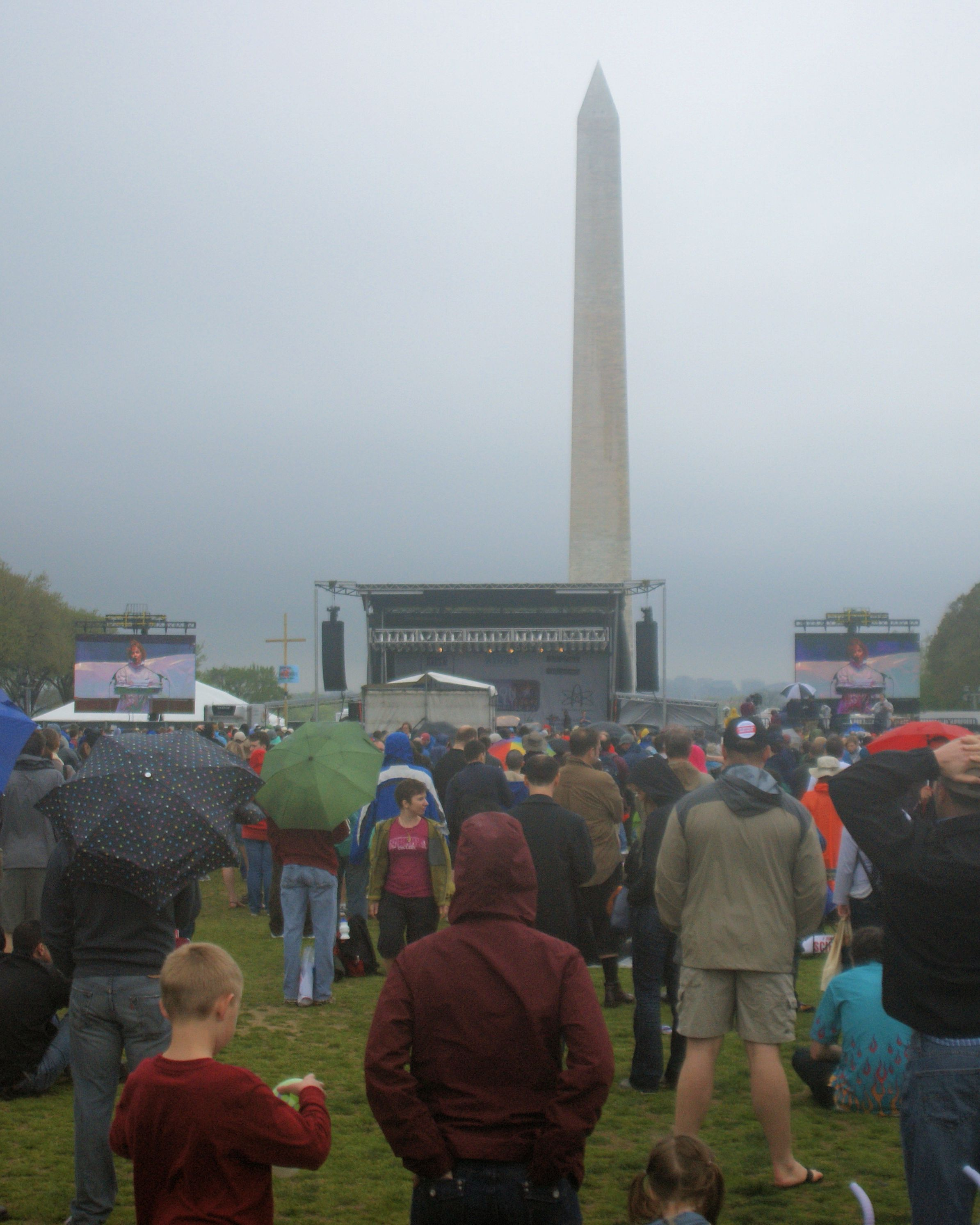 Crowd at the Reason Rally. National Mall, Washington, DC, March 24,2012. Washington Monument in background.